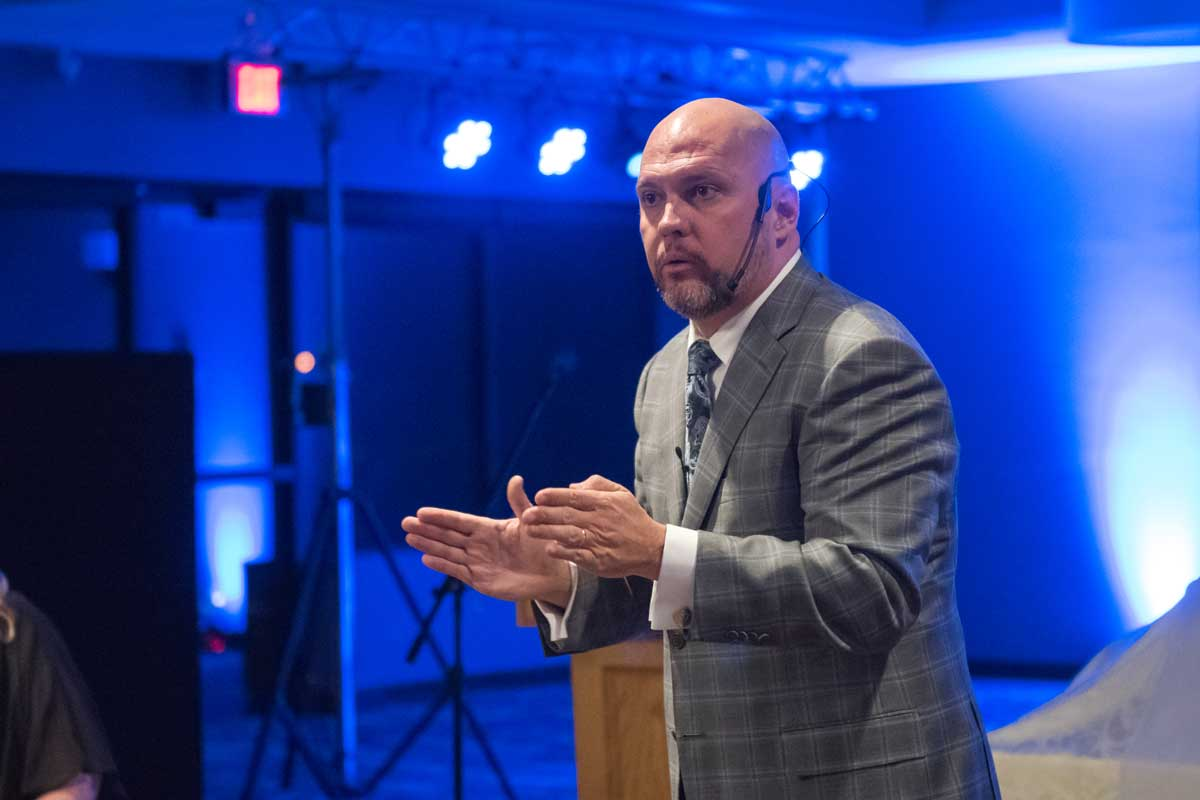 Eric gives frequent talks about his experience and his training method.